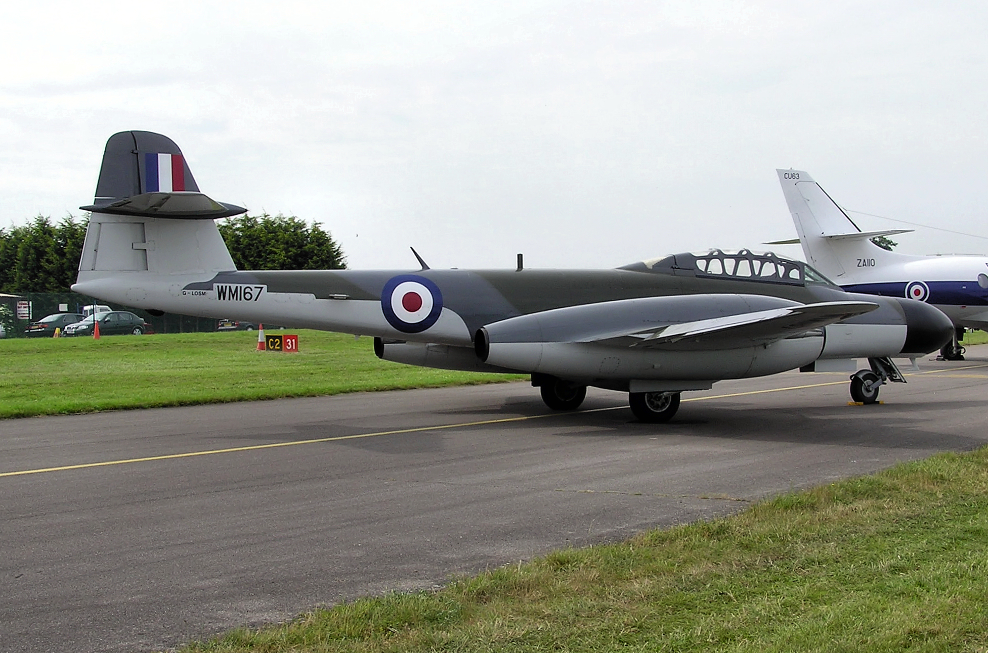 Privately-owned Gloster Meteor NF11 (RAF code WM167) at the Classic Jet Air Show, Kemble Airport, Kemble, Gloucestershire, England, in June 2005. On the UK civilian register as G-LOSM. Built by Armstrong Whitworth in 1952 at their Baginton (Coventry) factory. Into RAF service 1952, left RAF service 1975.